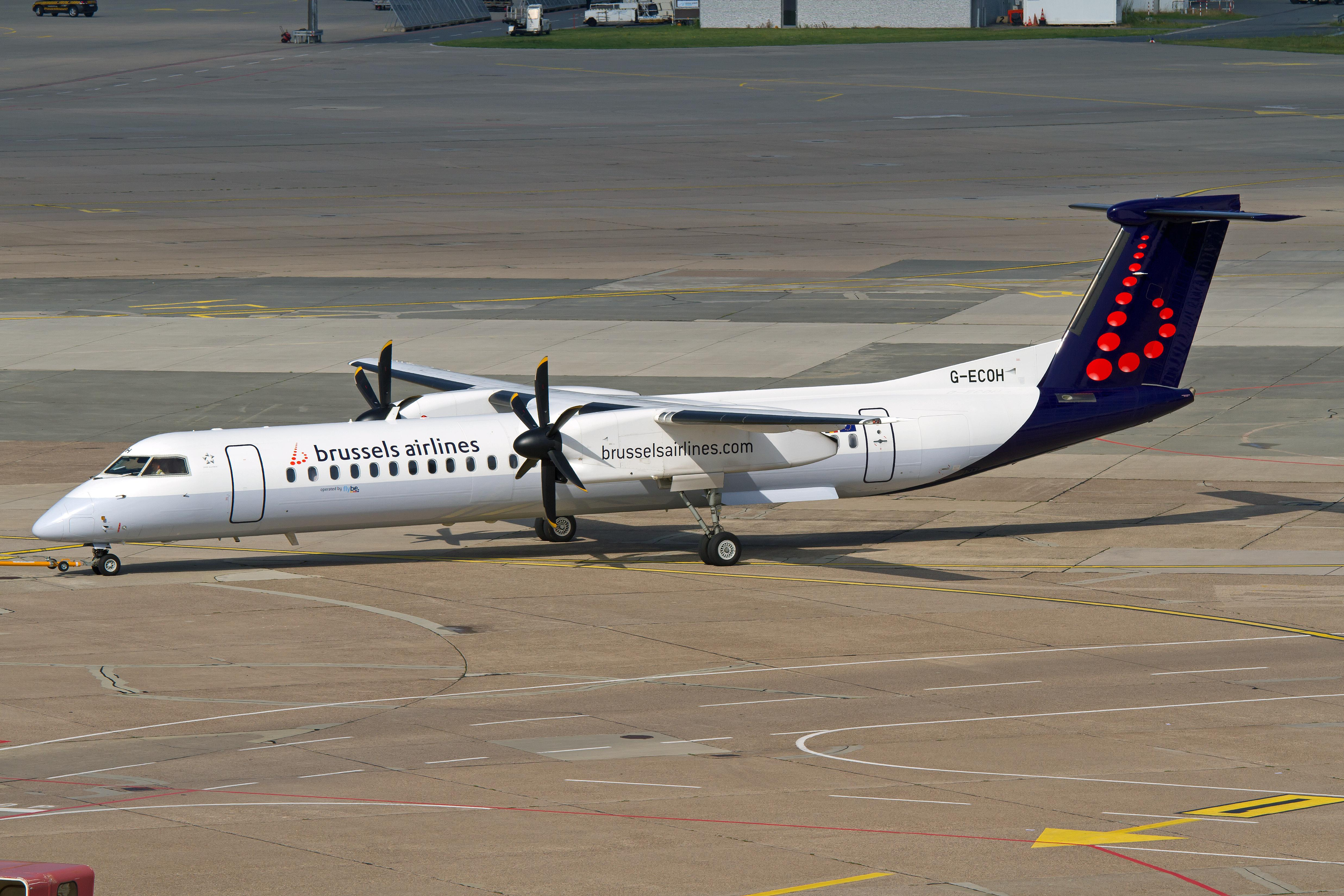 Dash 8-Q400 of Brussels Airlines at Hanover/Langenhagen International Airport